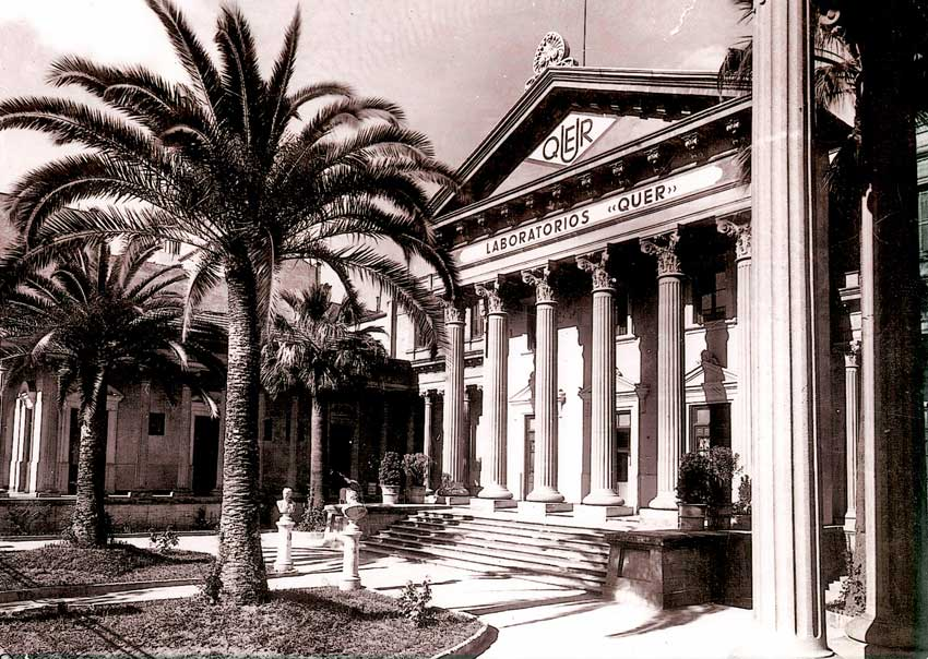 Instituto de Higiene del Doctor Murga (Institute of Hygiene of the Doctor Murga), Seville.